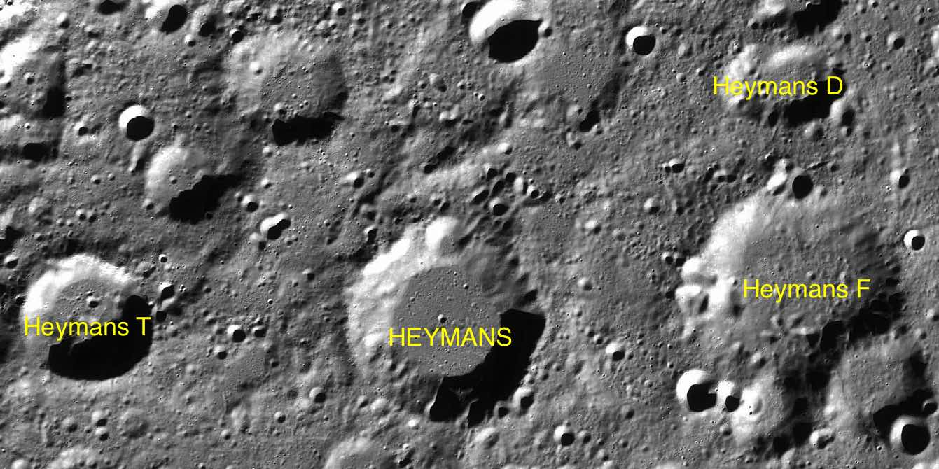 Part of the chart LAC-8 used for the presentation